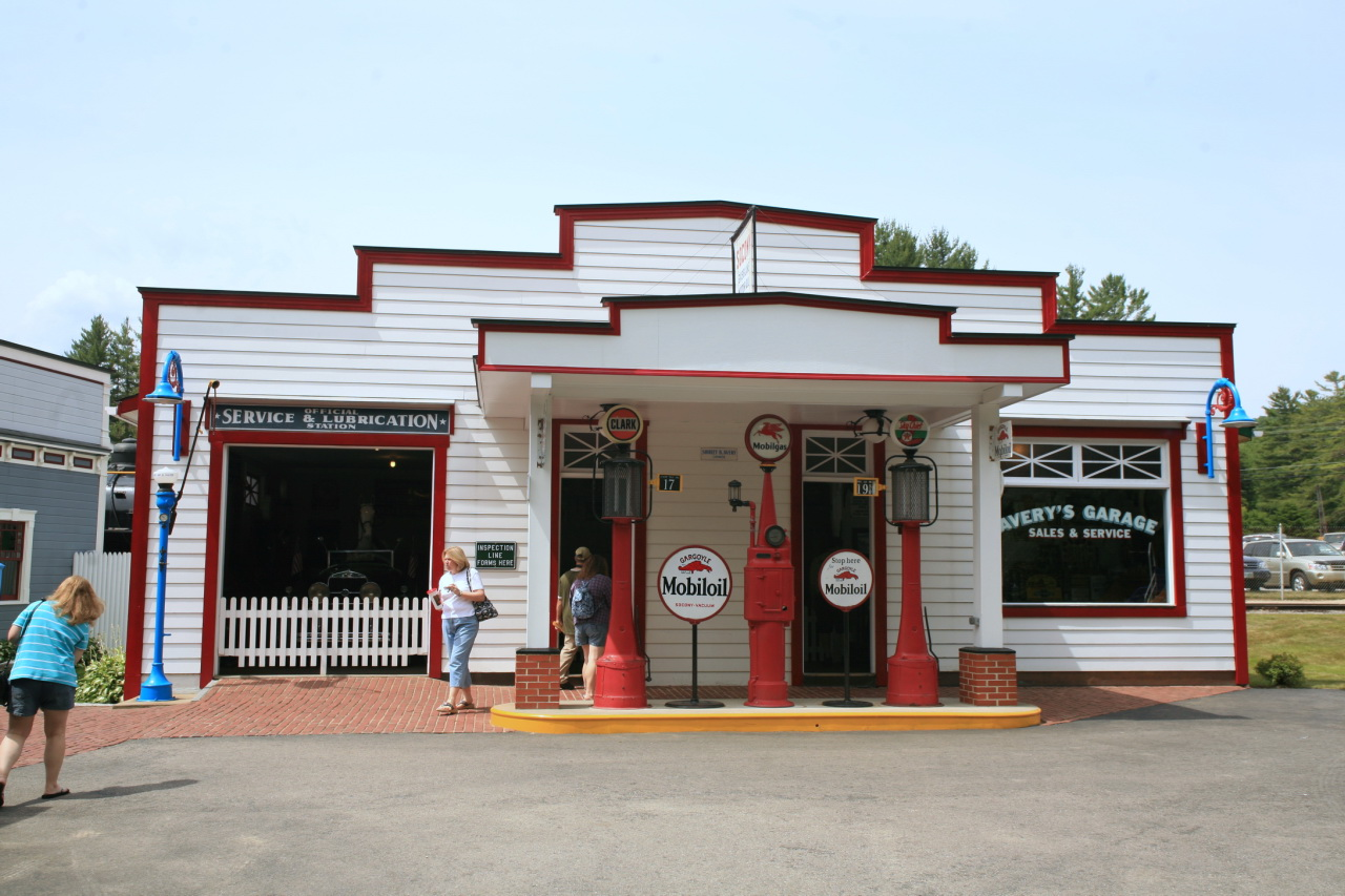 Tour this replica gas station on Main Street to see early motoring memorabilia, vintage motorcycles and antique autos, including a fully-restored 1931 LaSalle Touring car.